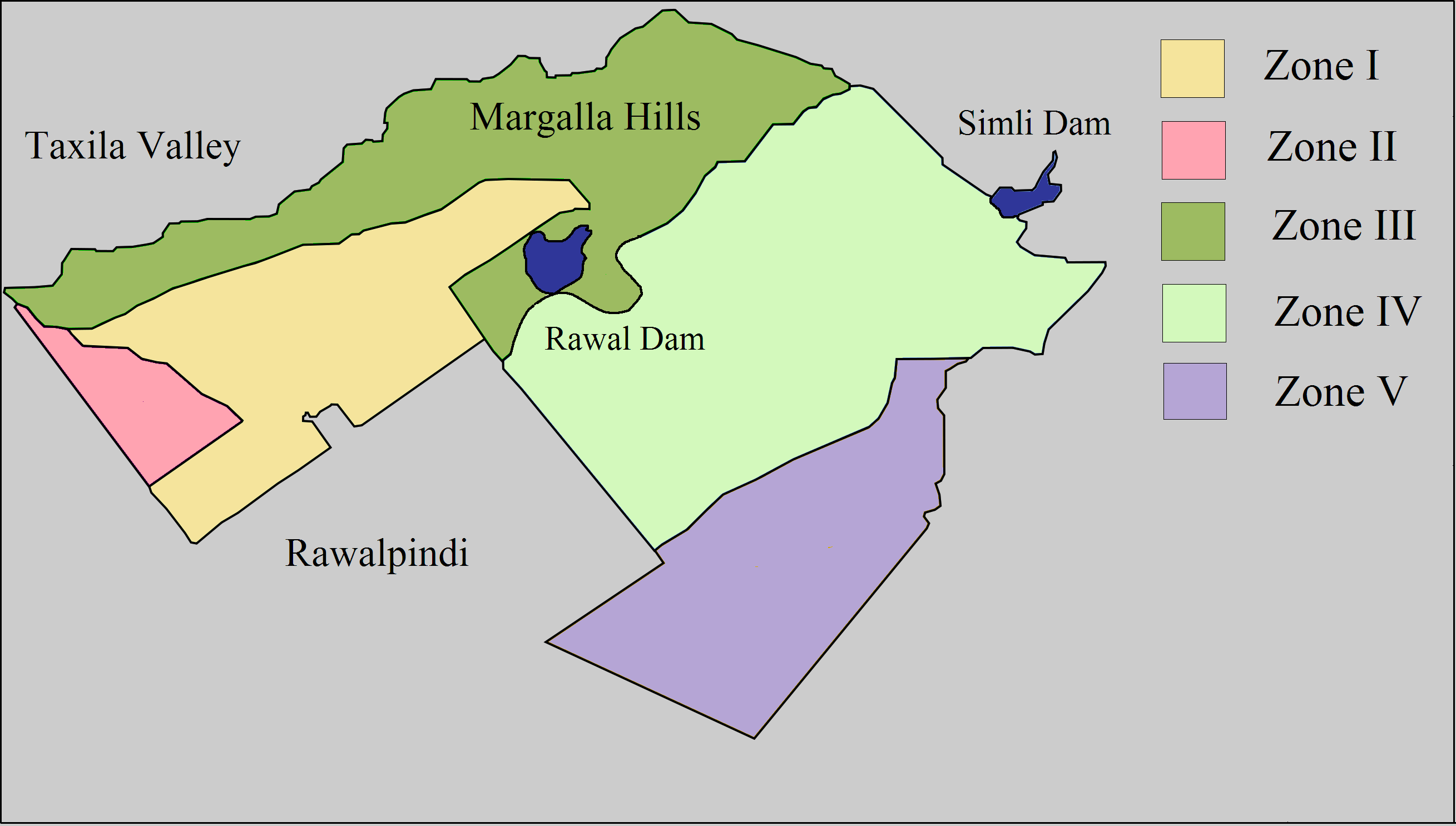 Map of Islamabad Capital Territory with location of the zones, Rawalpindi, Rawal lake, and Simli Dam.